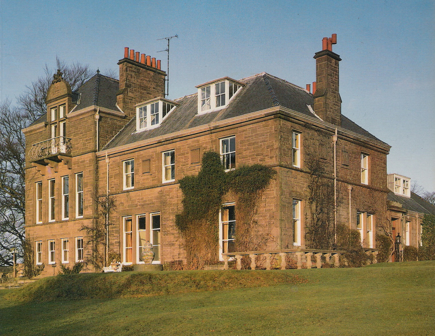 Ordinary photo. No copyright